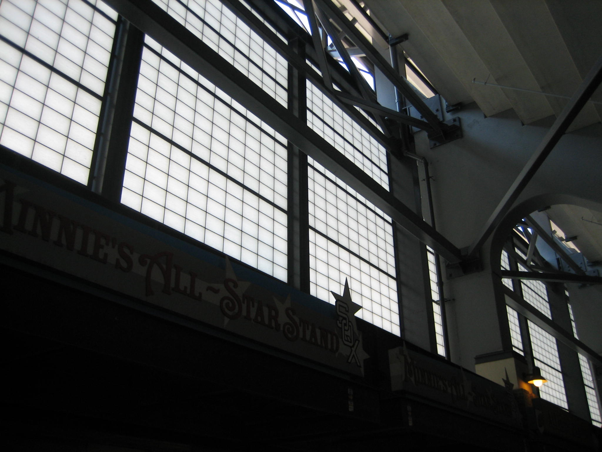 U.S. Cellular Field. Chicago Illinois.